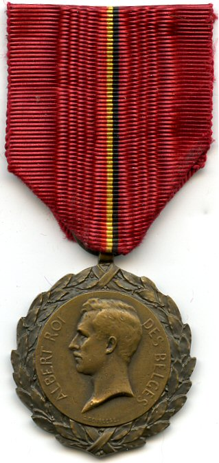 King Albert Medal (Belgium 1914-18)